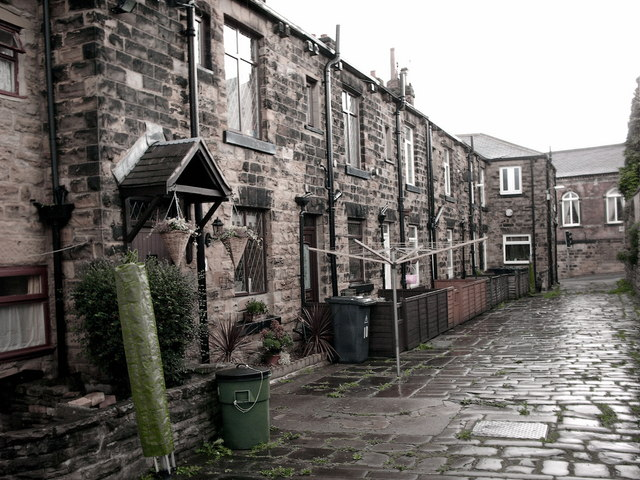 Back Clarendon Terrace, Park St, Churwell Fleming family at No:18--1891